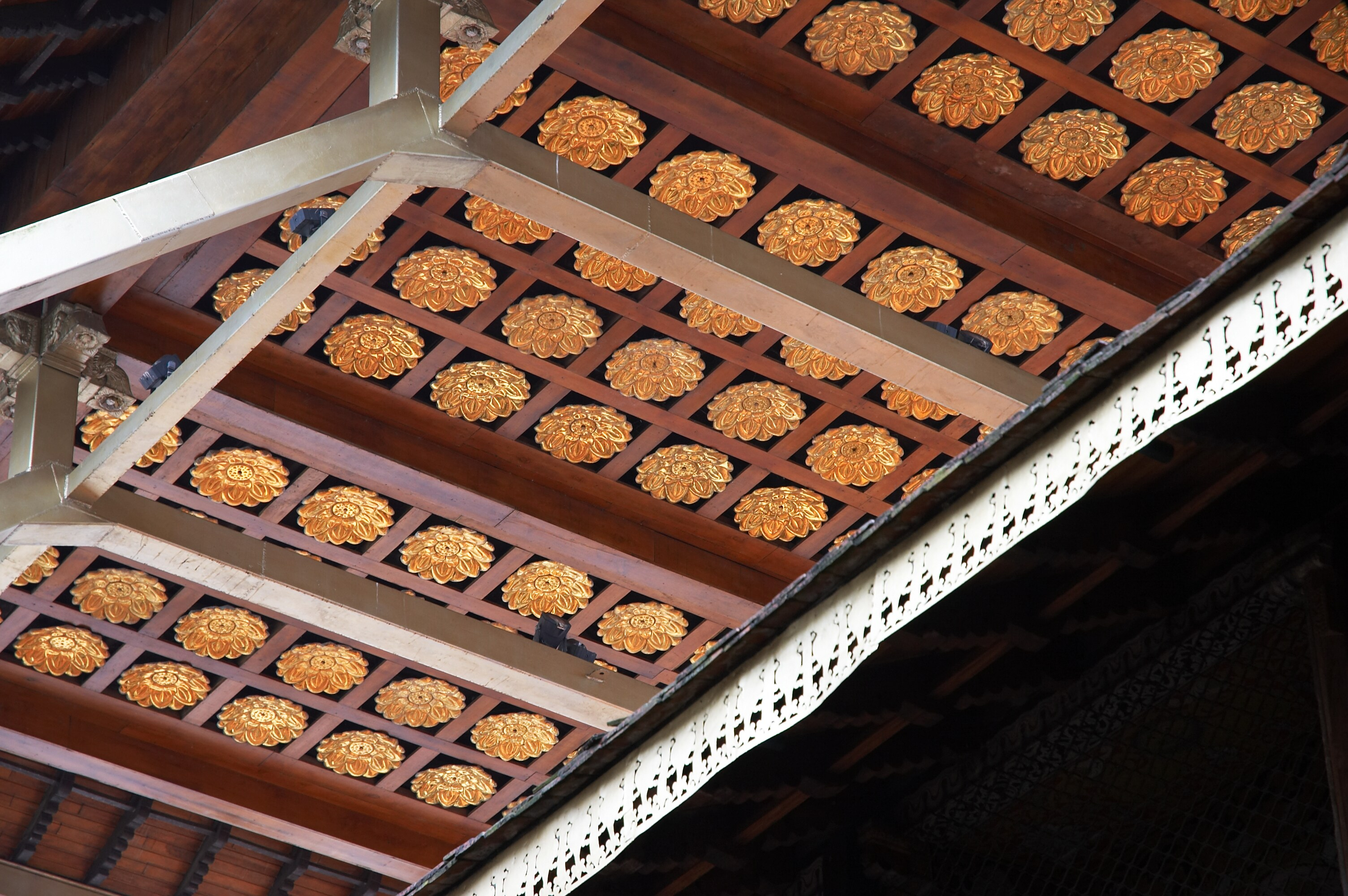 Temple Dalada Maligawa in the city Kandy in Sri Lanka - Google Maps - Google Earth